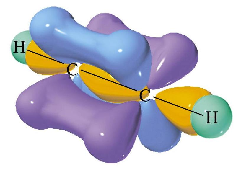 Acetylene